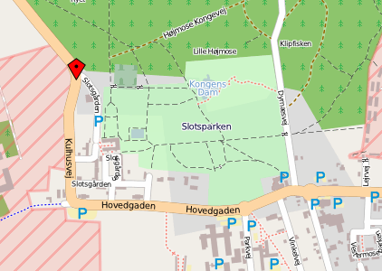 Area around Jægerspris Castle with a mark for Julianehøj, Denmark. Note, that wrong position is marked, while both OpenStreetMap and the wikipedia articles about Julianehøj have right coordinates (55.860872°, 11.967875°), outside top left corner of the presented map.